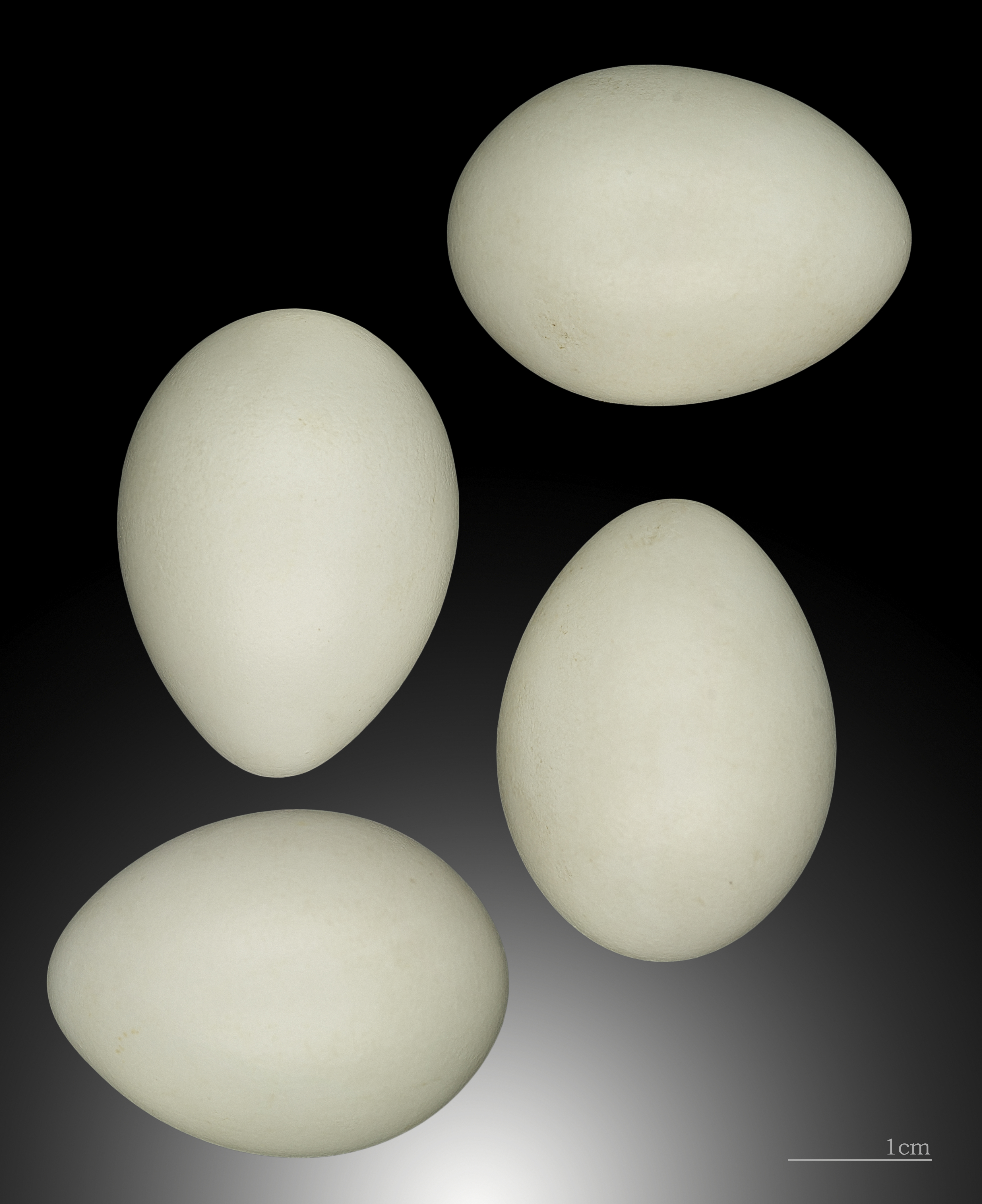 Egg of White-winged Snowfinch. Collection of Jacques Perrin de Brichambaut